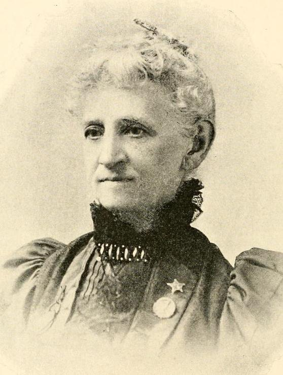 An older whitewoman, with white hair, wearing a high lace collar and large sleeves; she has a pin or medallion on her lapel.